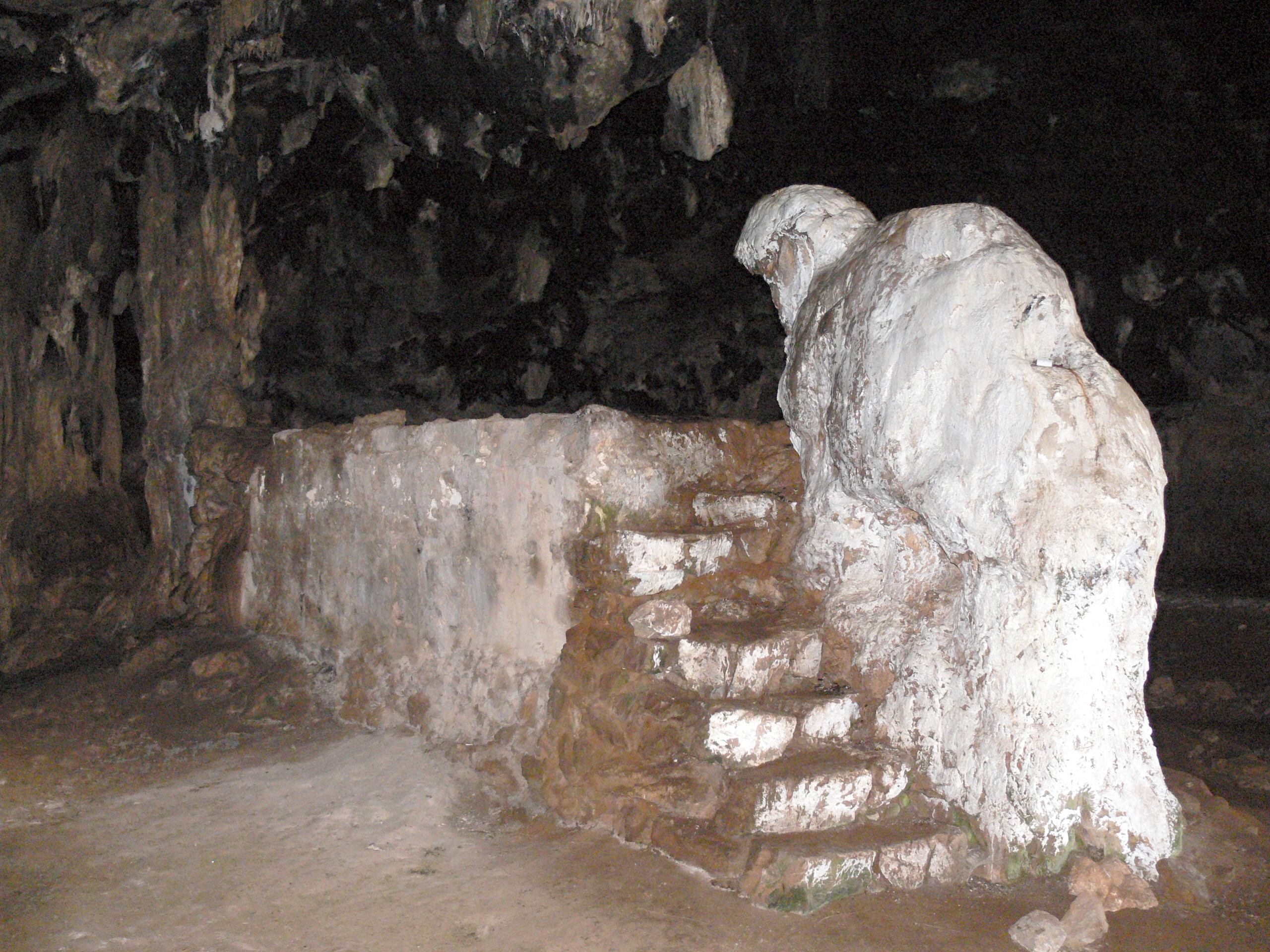 Arkoudiotissa, Akrotiri ( Crete ). Stalagmite in form of a bear combined with an ancient altar.